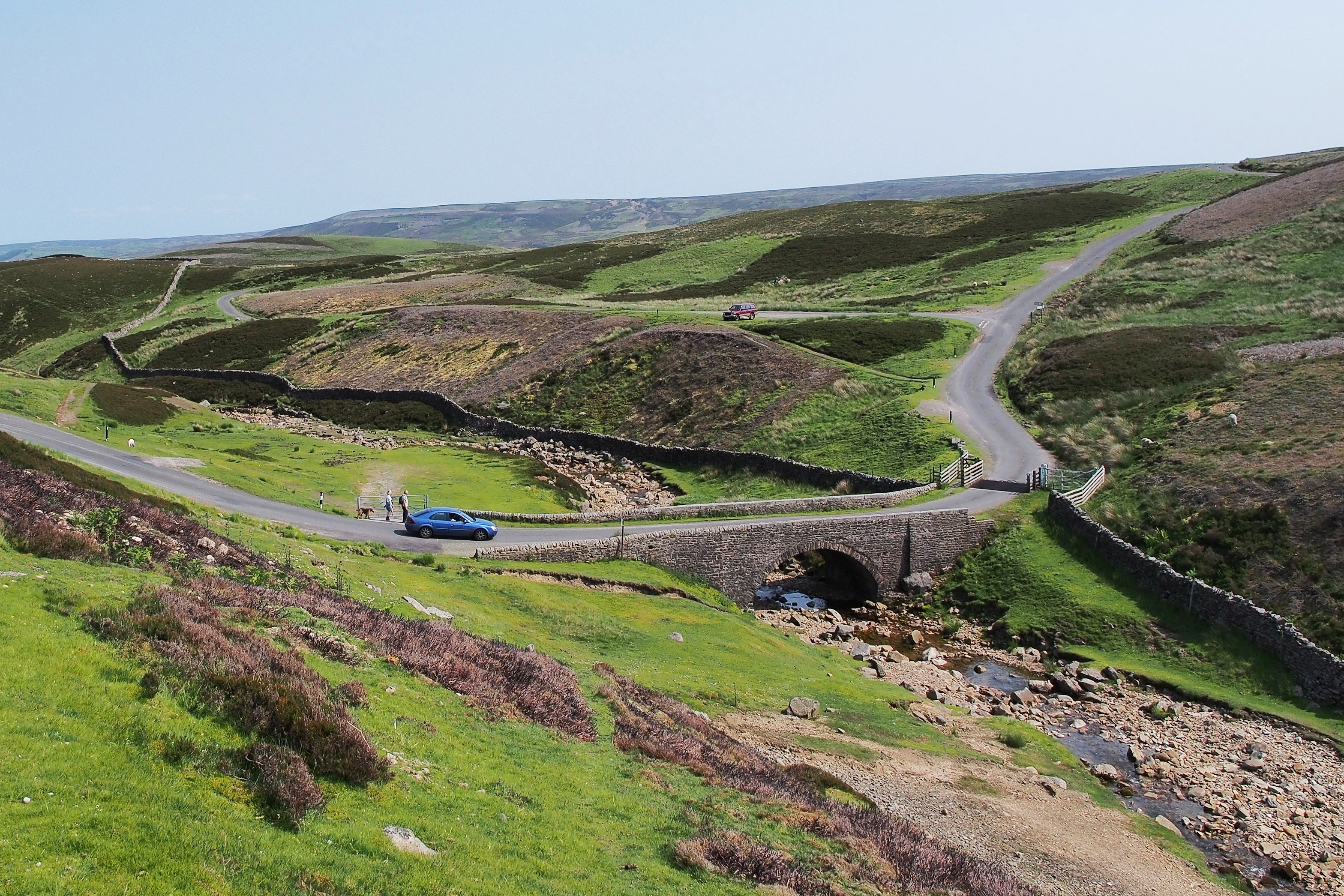 Surrender bridge spanning Mill Gill / Barney Beck, Healaugh, North Yorkshire